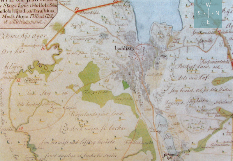 Lahti, Nils Westermark, 1750-1752